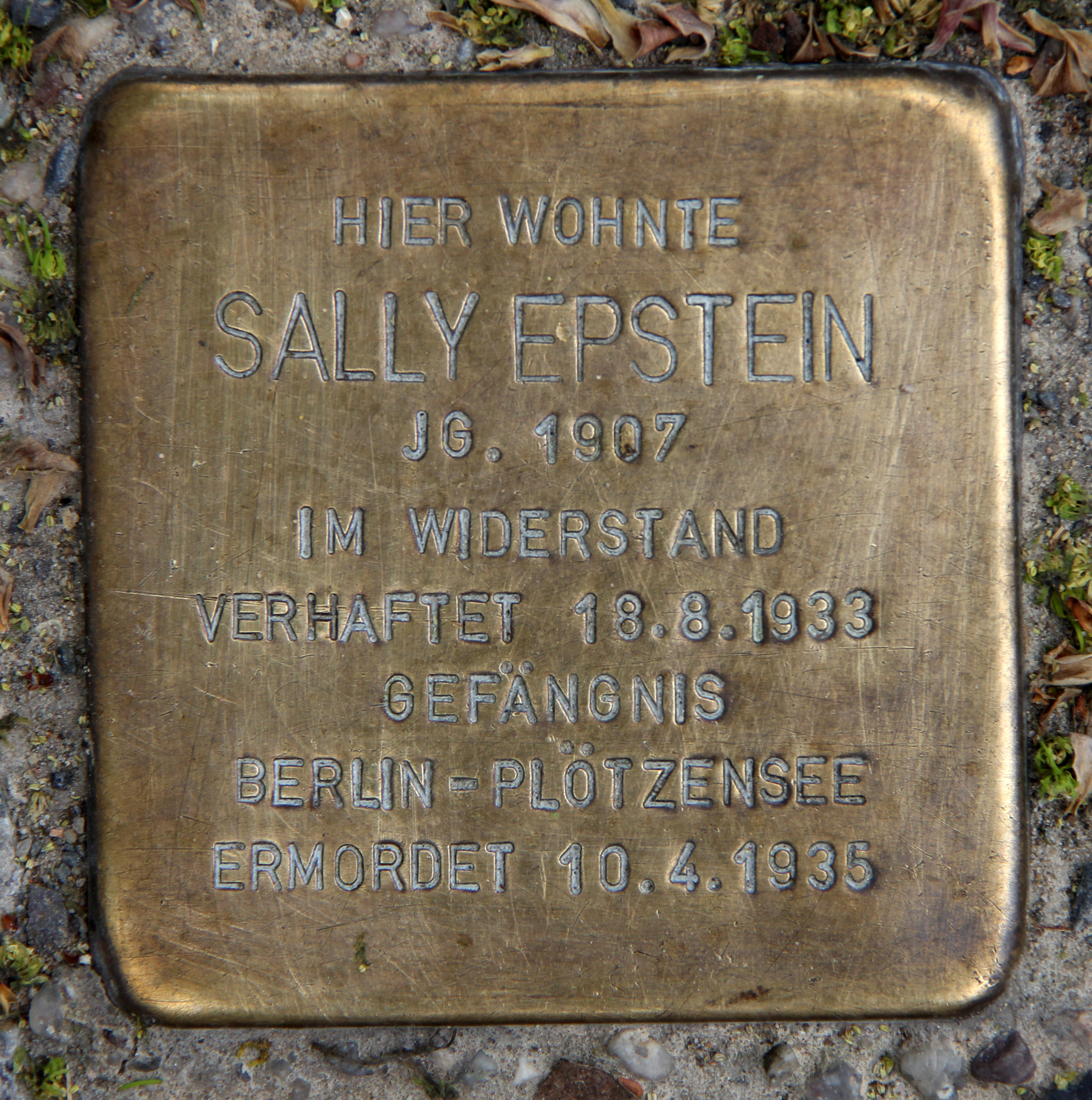 "Stolperstein" (stumbling block), Sally Epstein, Max-Beer-Straße 45, Berlin-Mitte, Germany